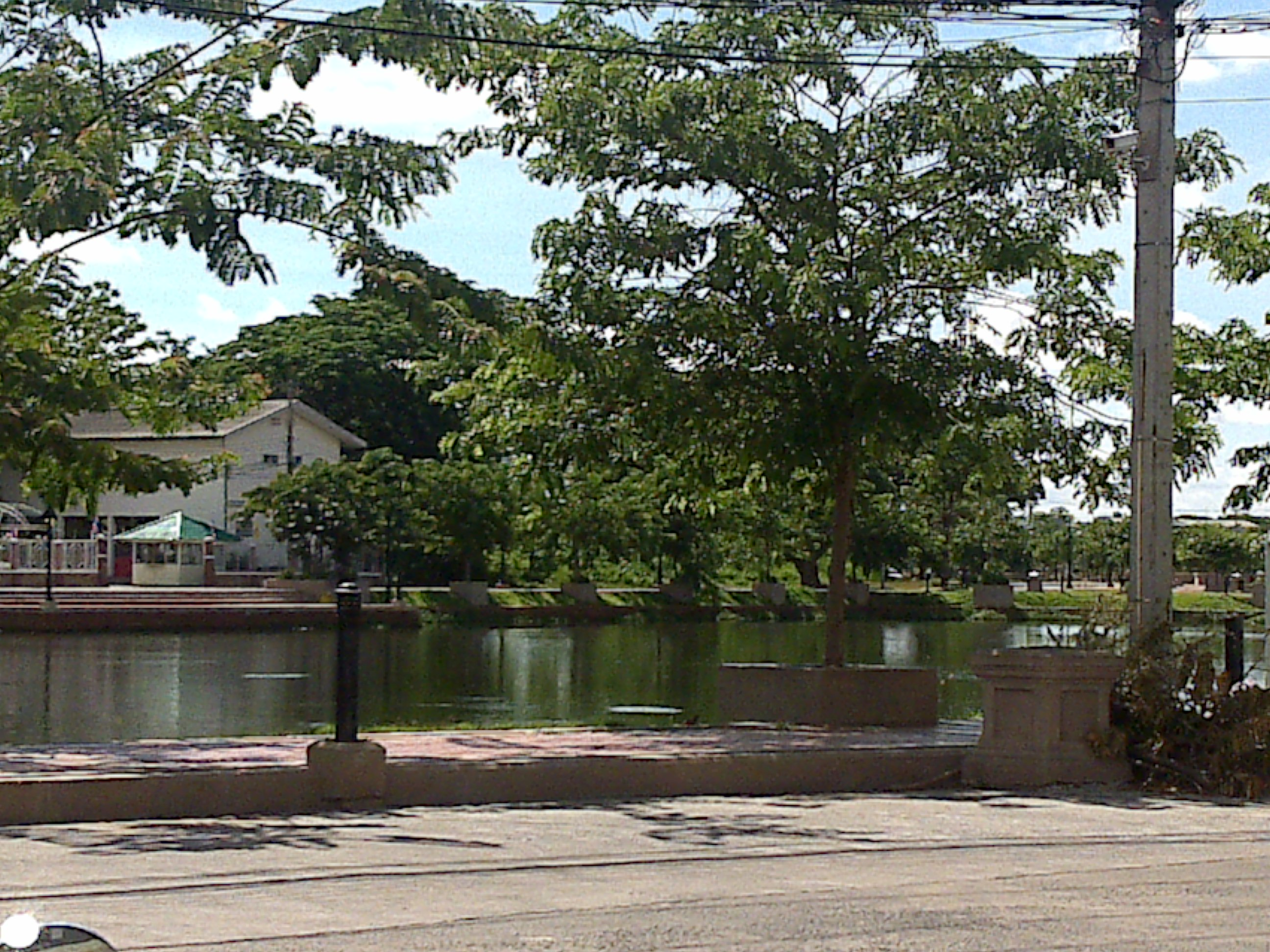 Buriram Moat